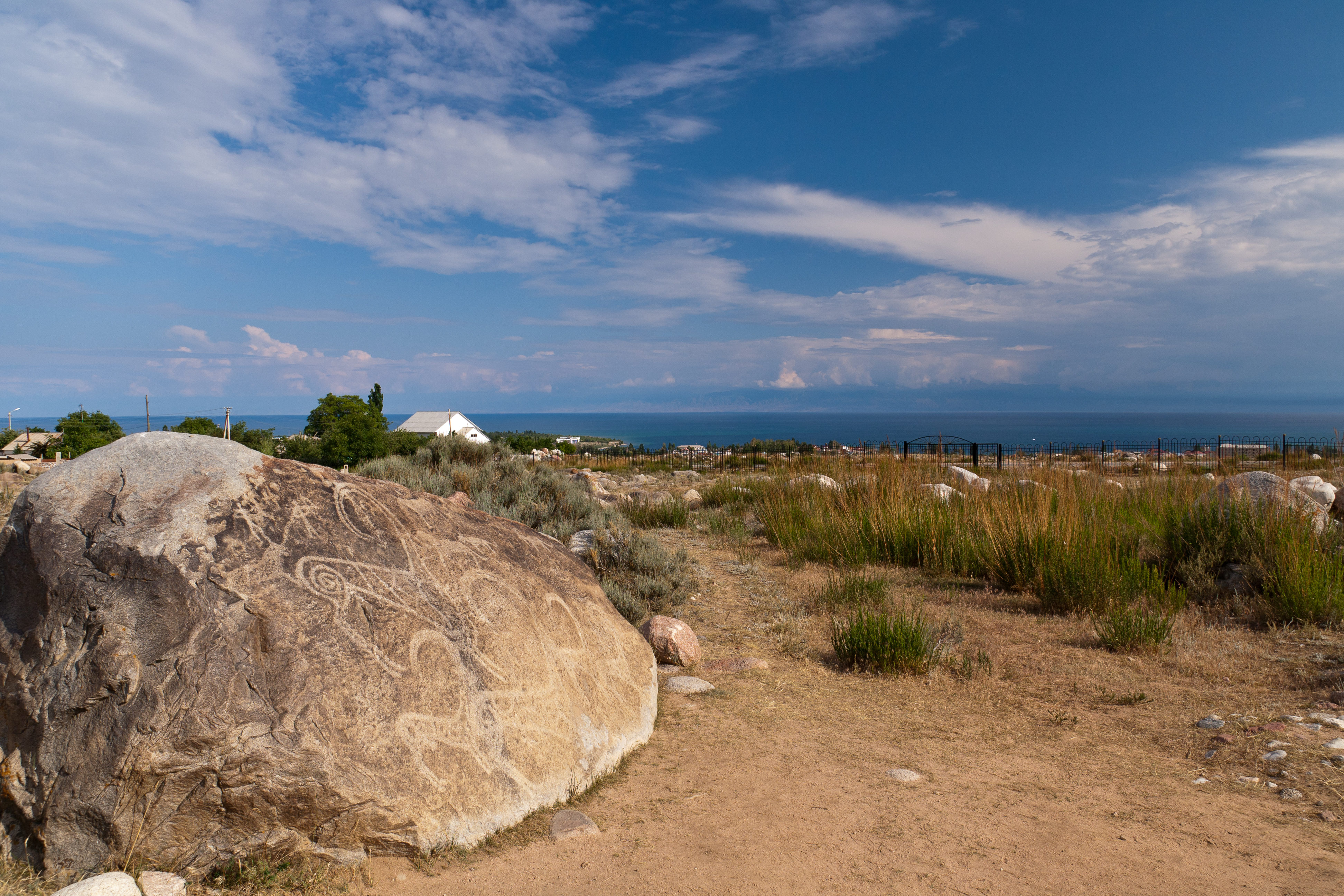 Petroglyph site in Cholpon-Ata, lake Issyk Kul in the background